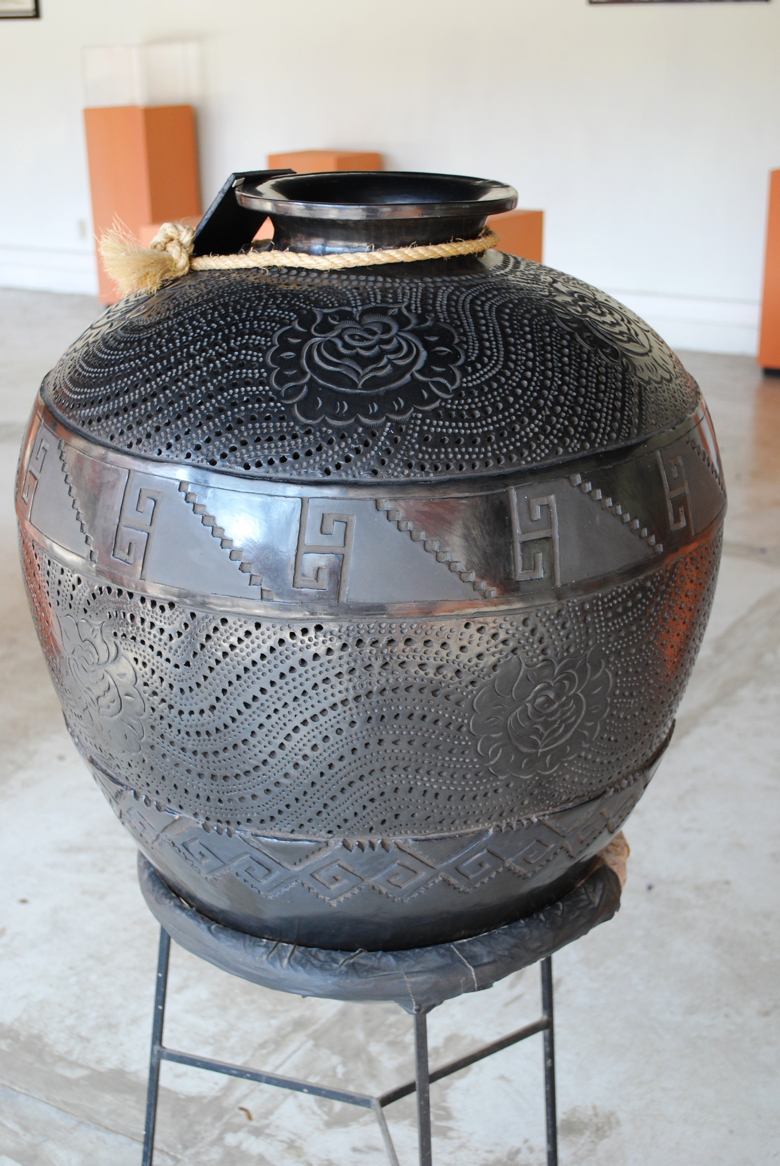 Large cantaro jar of barro negro at Museo Estatal de Arte Popular de Oaxaca in San Bartolo Coyotepec, Oaxaca, Mexico